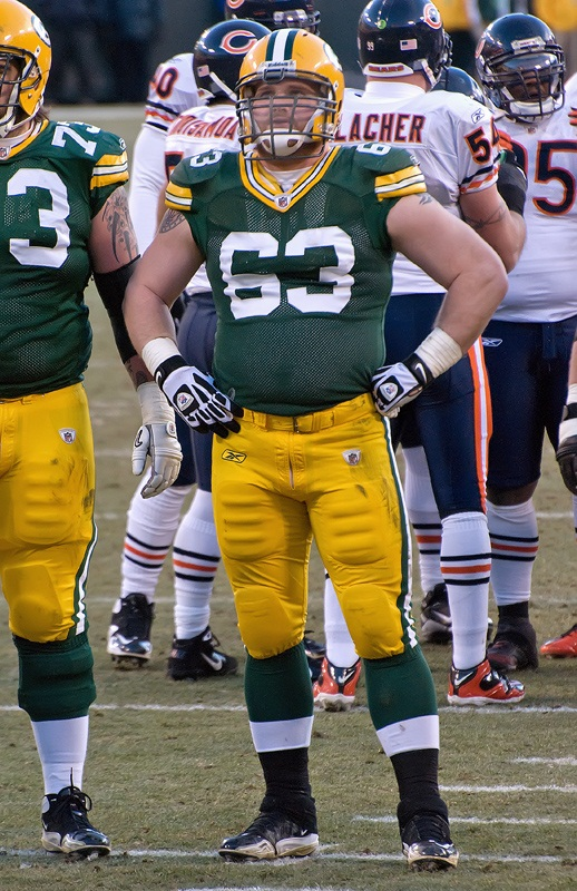 Lambeau Field - January 2, 2011. Photo by Mike Morbeck.